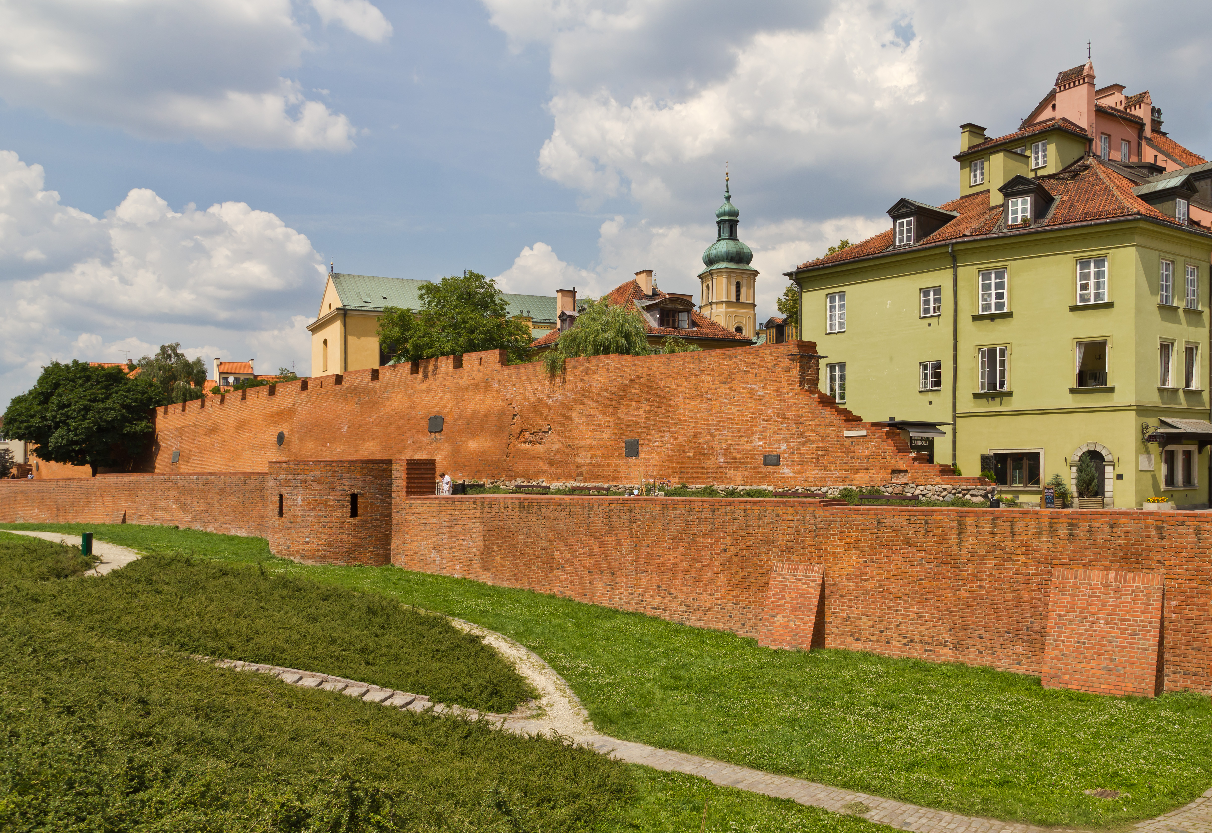 Old Town of Warsaw (Poland), a piece of fortification wall